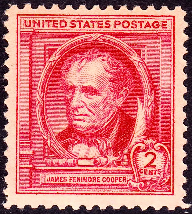 US Postage stamp, commemorative issue of 1940, James Fenimore Cooper Engraving of stamp modeled after a photo taken by Mathew Brady One of the Famous American commemorative issues of 1940.